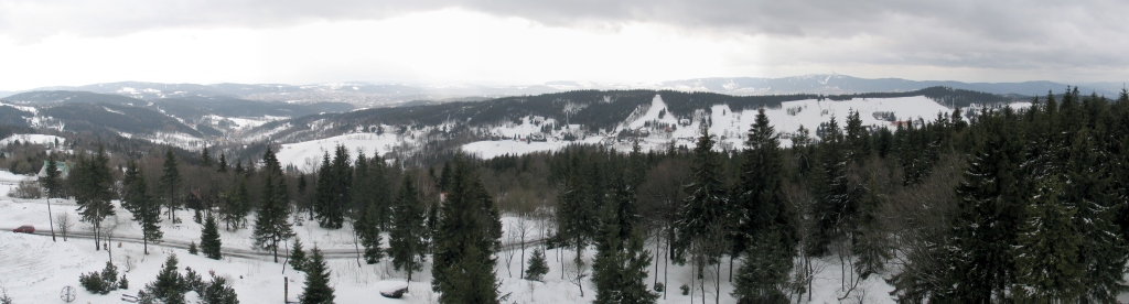 Under Královka